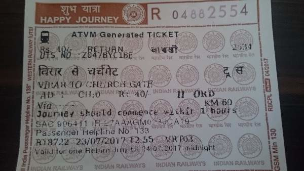 A photo from my collection of train tickets from India, this one being from 2017, from the Mumbai suburban rail.